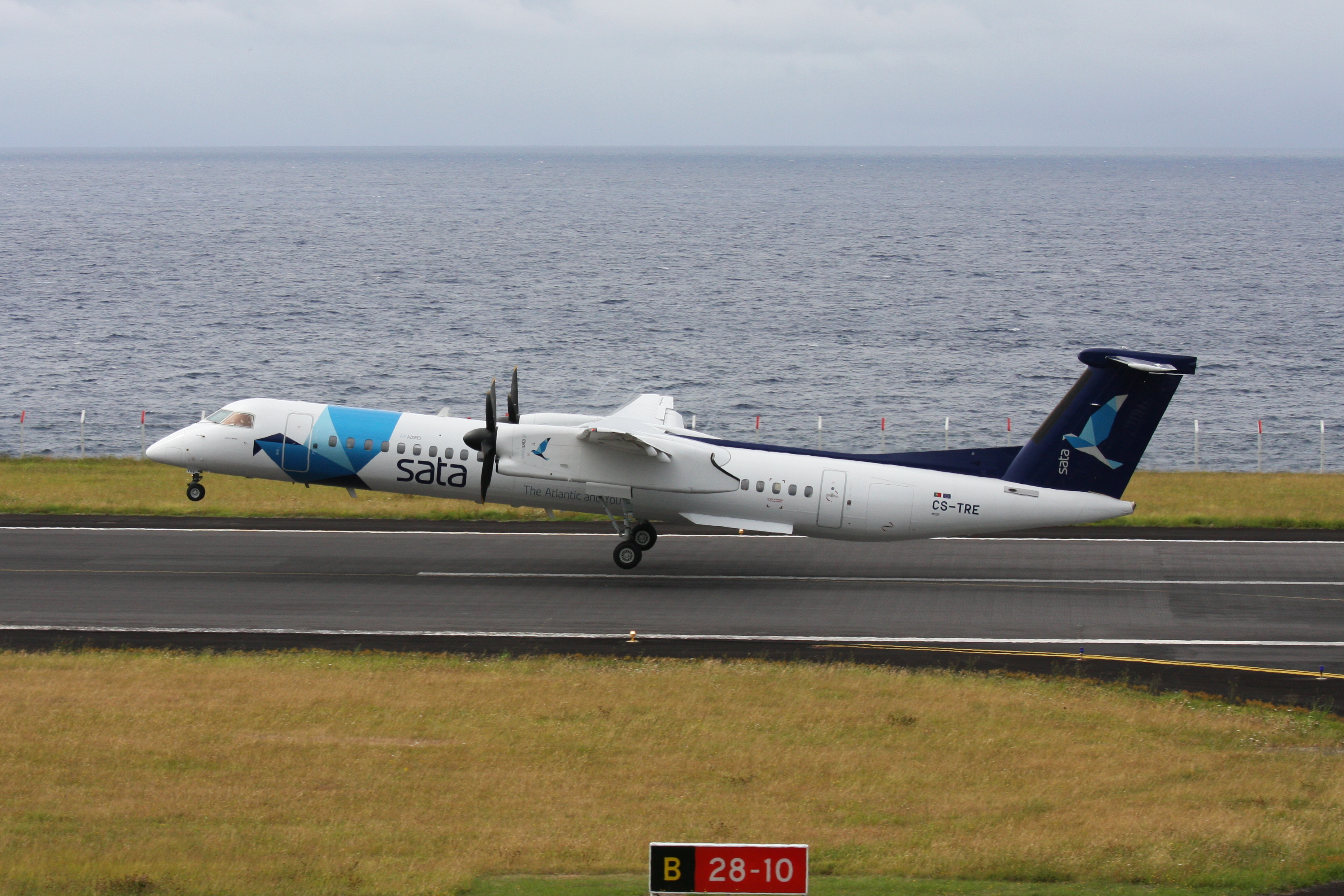 An Dash8-Q400 of SATA Air Açores taking off from Horta Airport